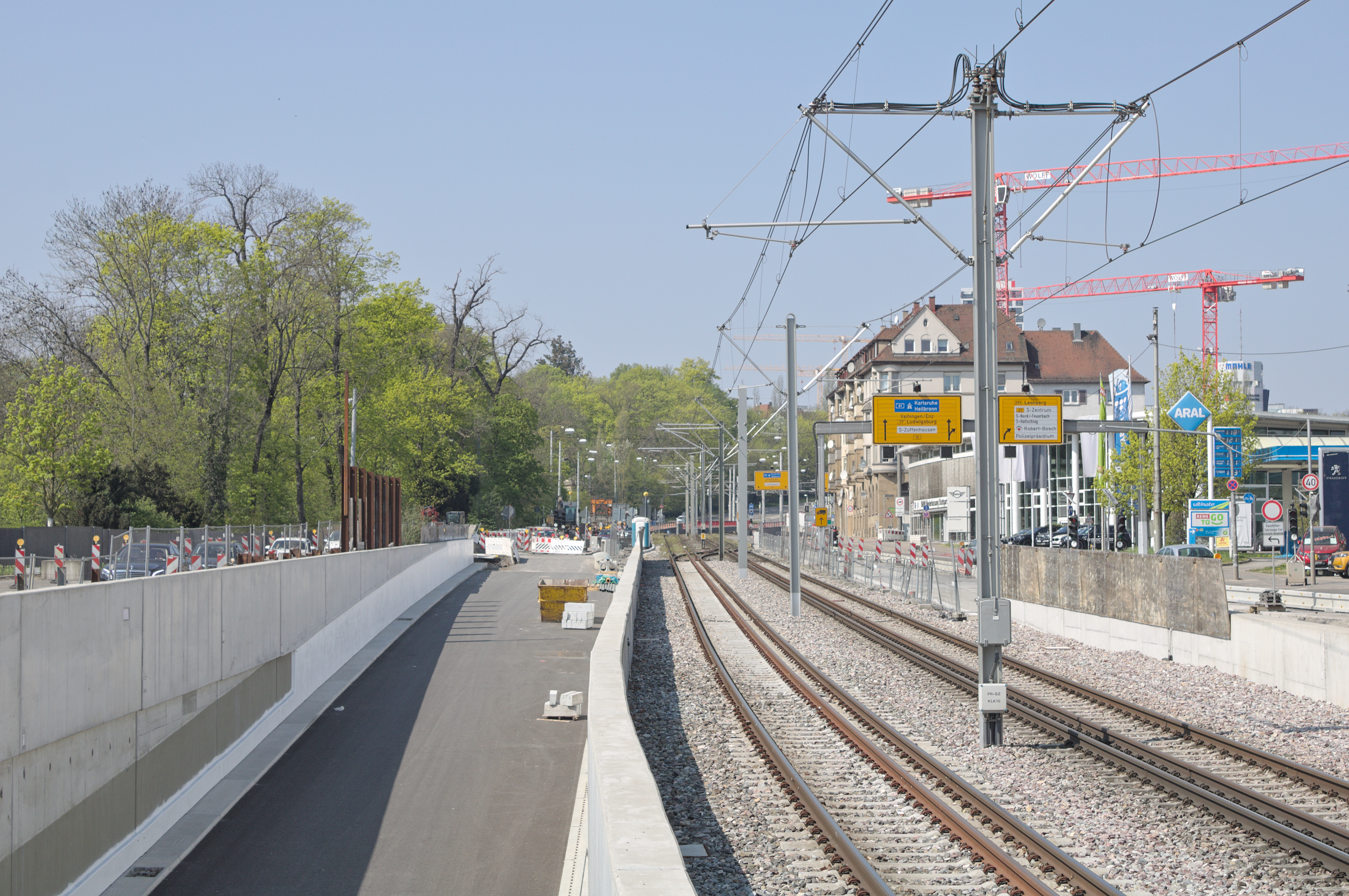 Rosensteintunnel_(2021) in Stuttgart